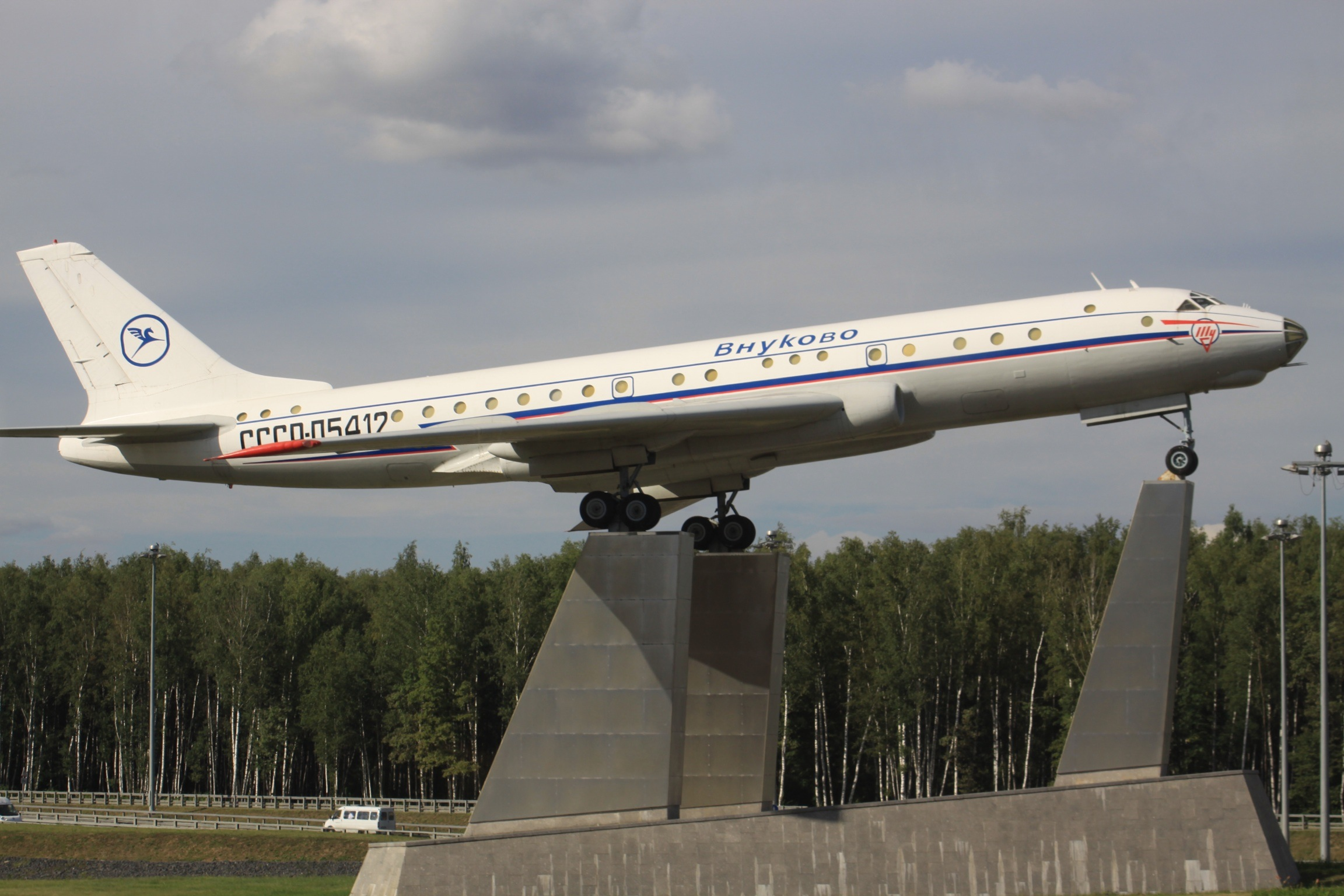 At Moscow Vnukovo